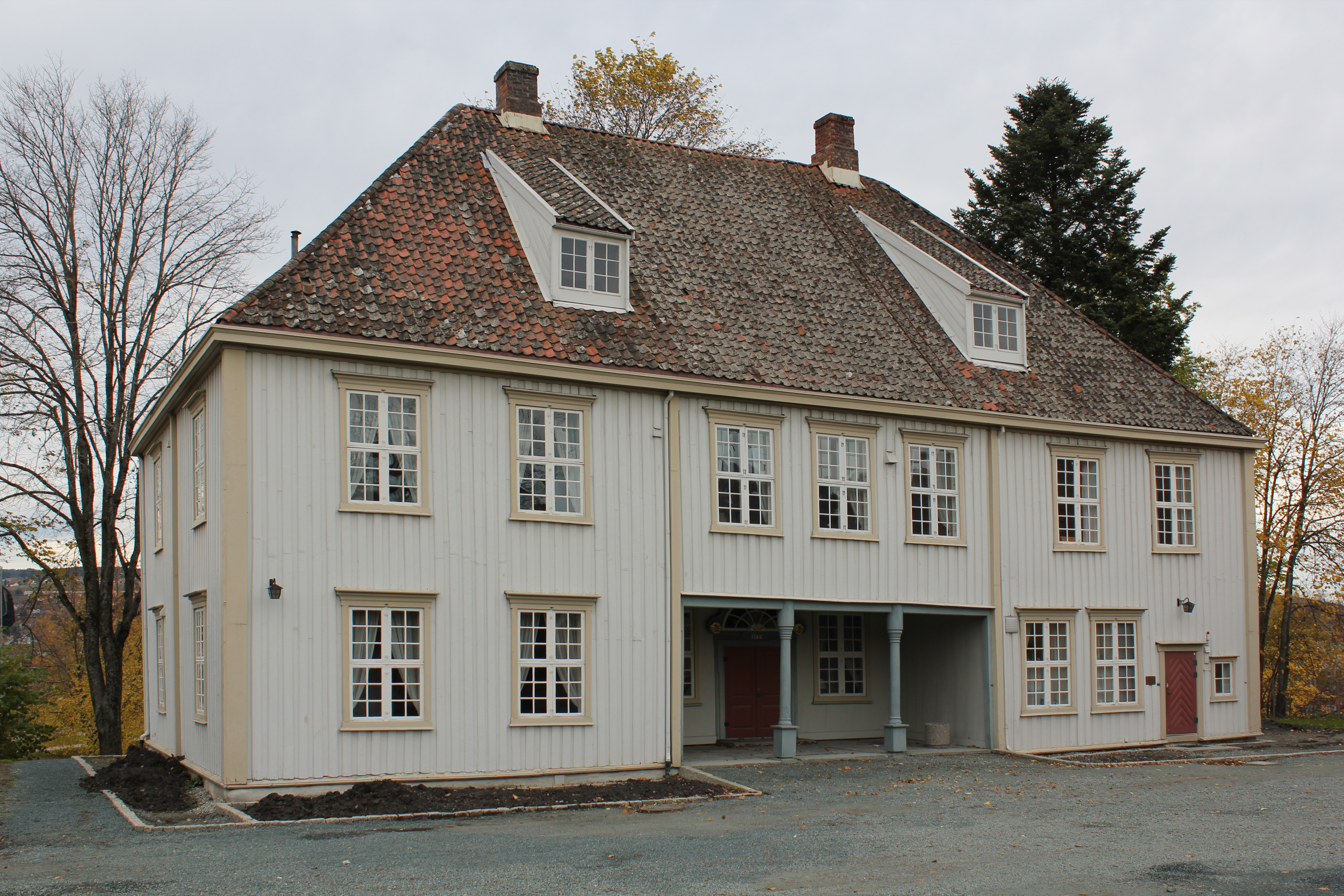 Lerchendal gård (=manor), Trondheim, Norway. The main facade towards the east, with the loggia in the center. The building dates from 1762. Moved here in 1773